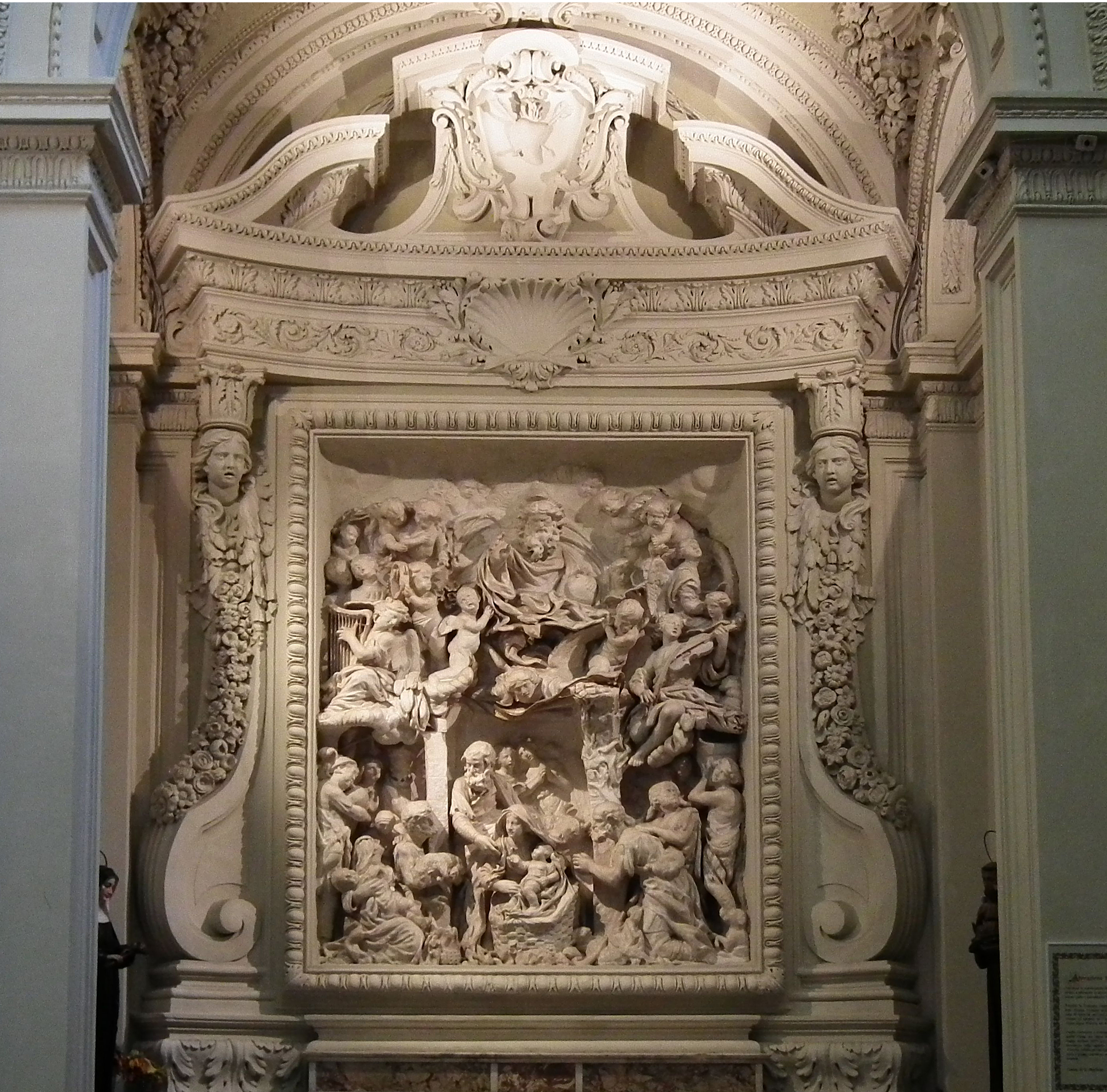 Francesco Grassia also called Franco Siciliano - "Adoration of the Shepherds", marble, 1667, 2,30m x 1,95m, Saint Ildefonso and Tommaso Church in Rome - Italy